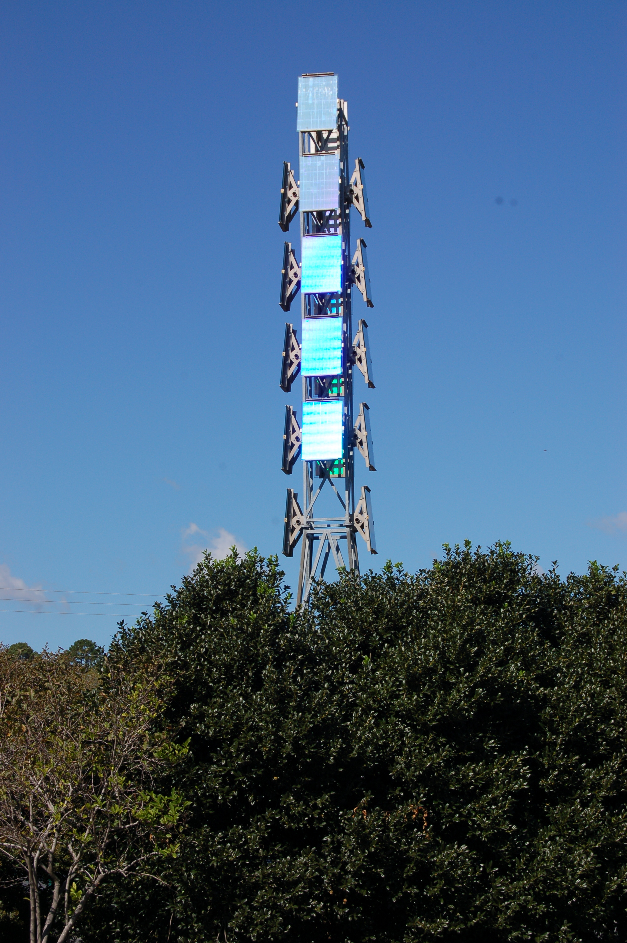 The Light+Time tower in Raleigh NC. Light+Time is a sculpture which uses glass panels to split sunlight into its primary colors in a way that the colors change from the point of view of a passing motorist.